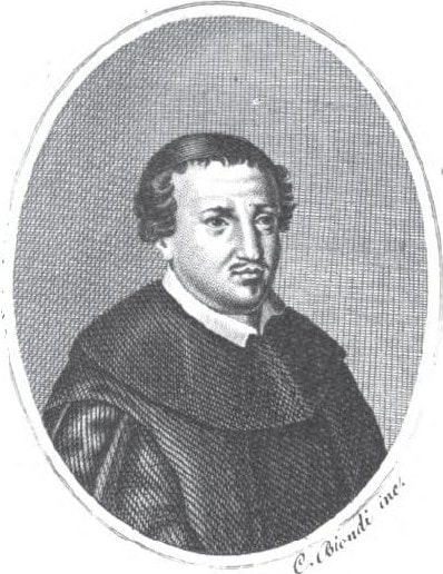 Paolo Amato, Sicilian architect